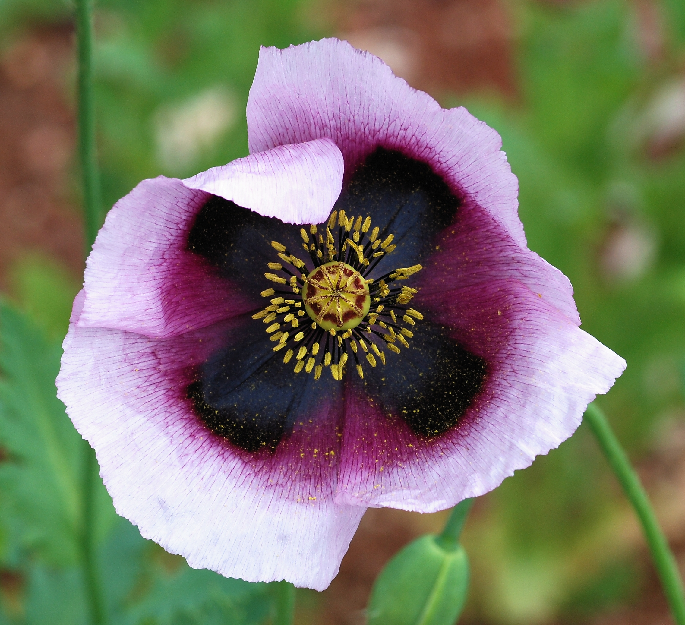 Opium Poppy flower showing a bud and a fruit in the background